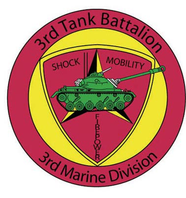 Patch of the 3rd Tank Battalion of the United States Marine Corps